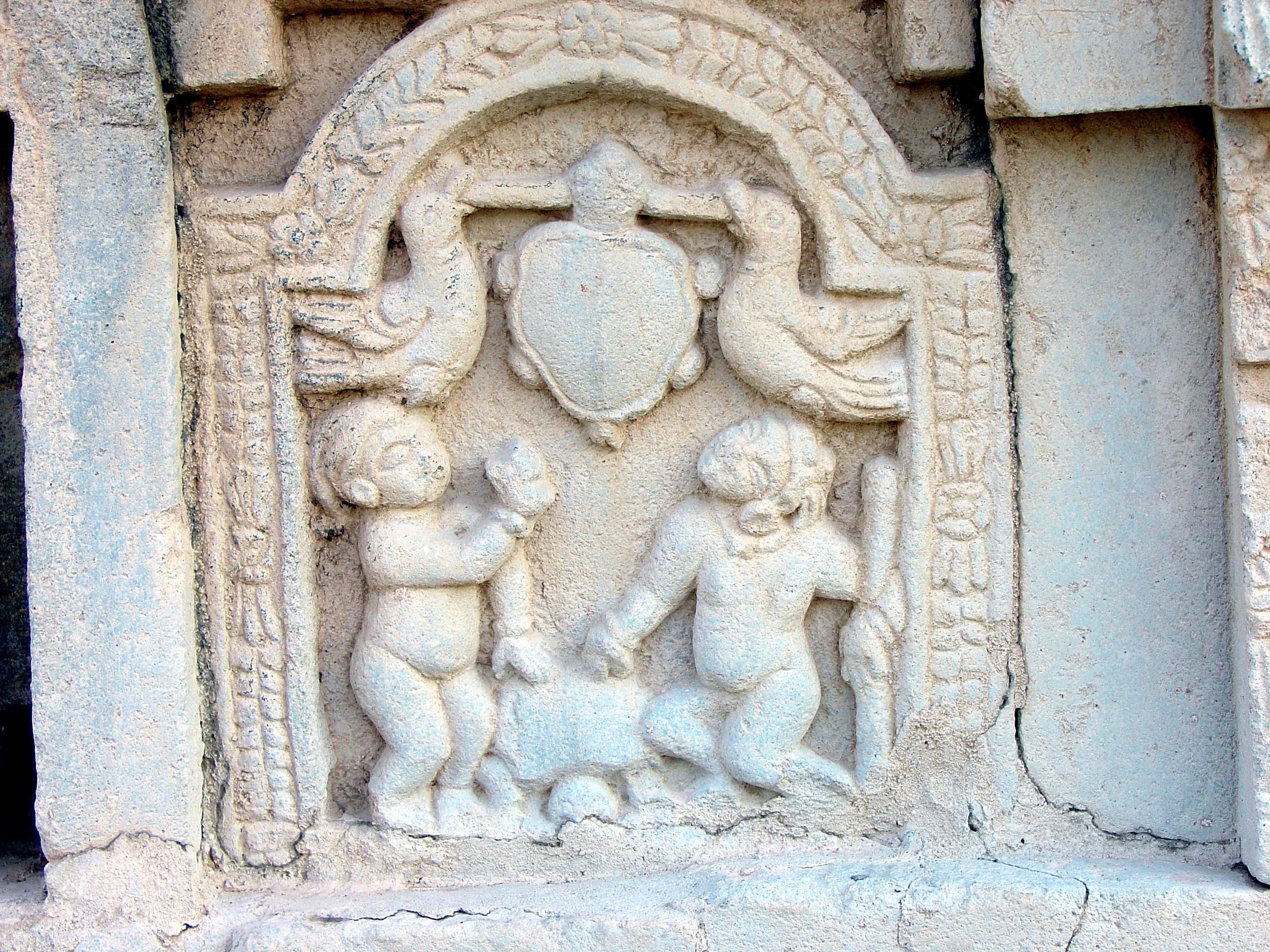 Tantri Tale. North face of Temple 2, Nalanda. 7th century In this Tantri tale, the turtle is escaping from hunters (not shown) thanks to two geese, who bear him aloft on a stick that he is grasping with his jaws. Unfortunately he opened his mouth to boast of the escapade, which caused him to fall to his death and be cut up for food by the hungry boy and girl below. This might be a modern copy; workmen are currently restoring the frieze. An extended version of the story can be found on the staircase of Mendut Temple in Java.